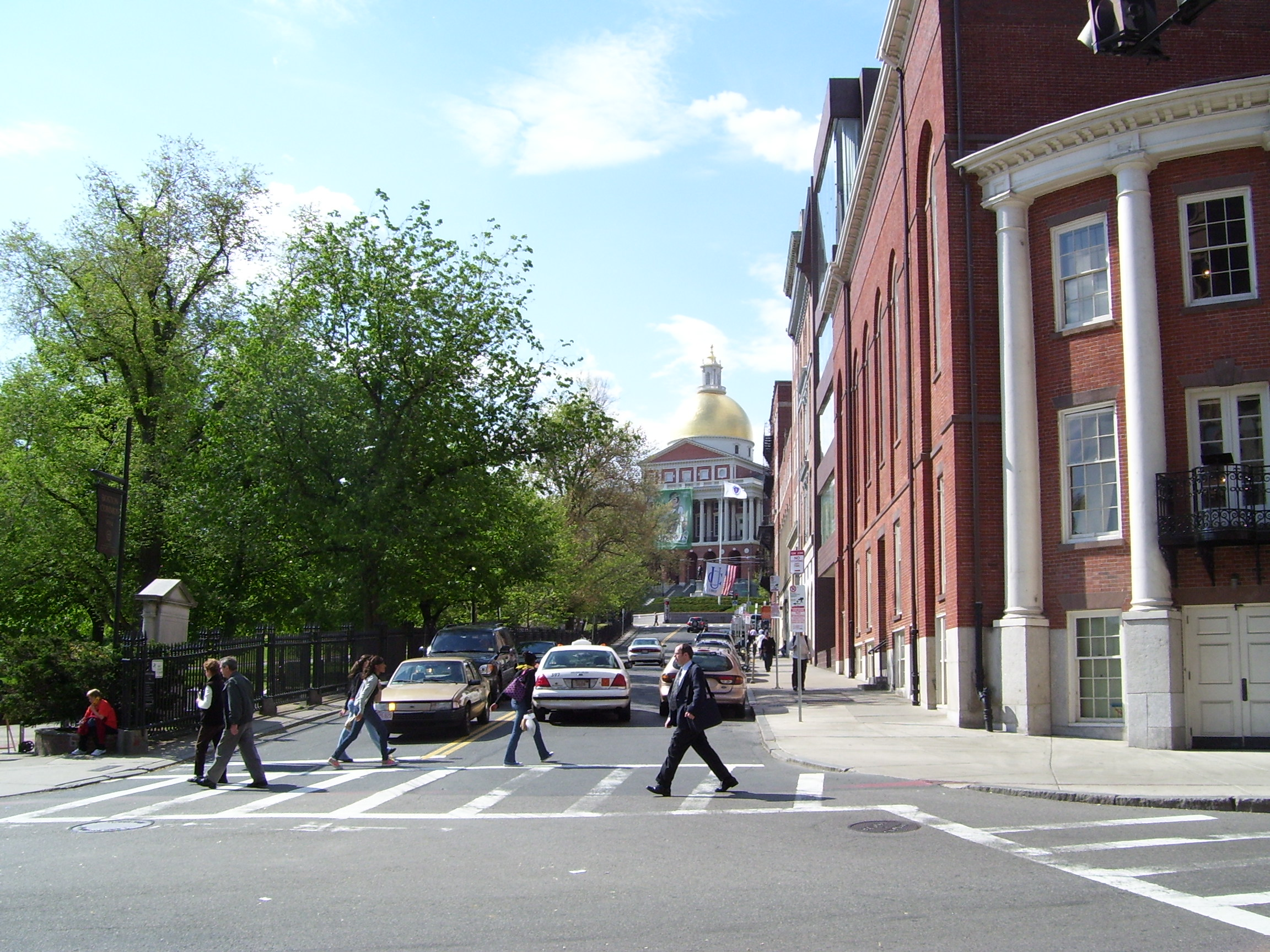 This is my 2008 photo of Park Street, Boston, MA.